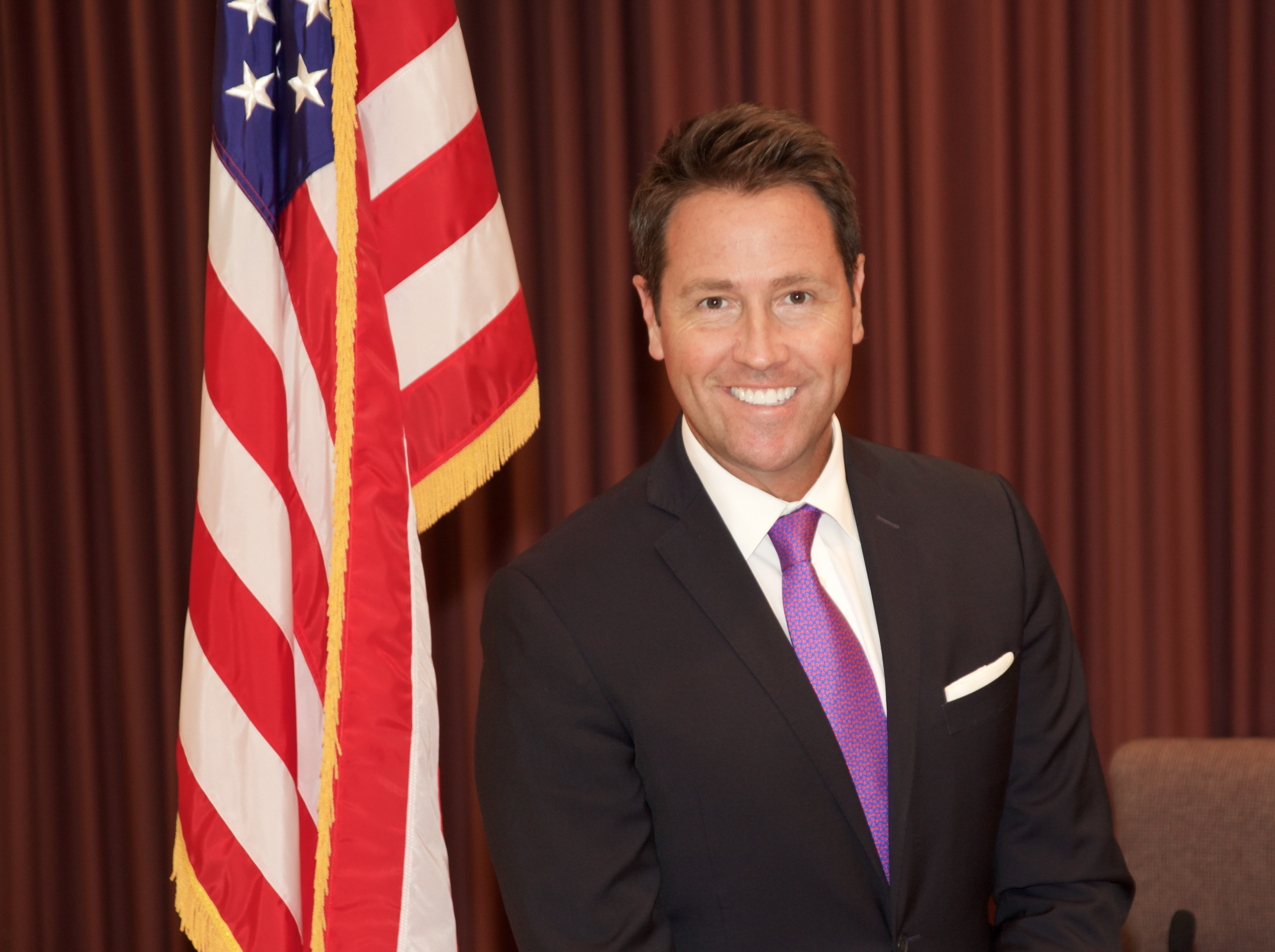 Mayor Hayward